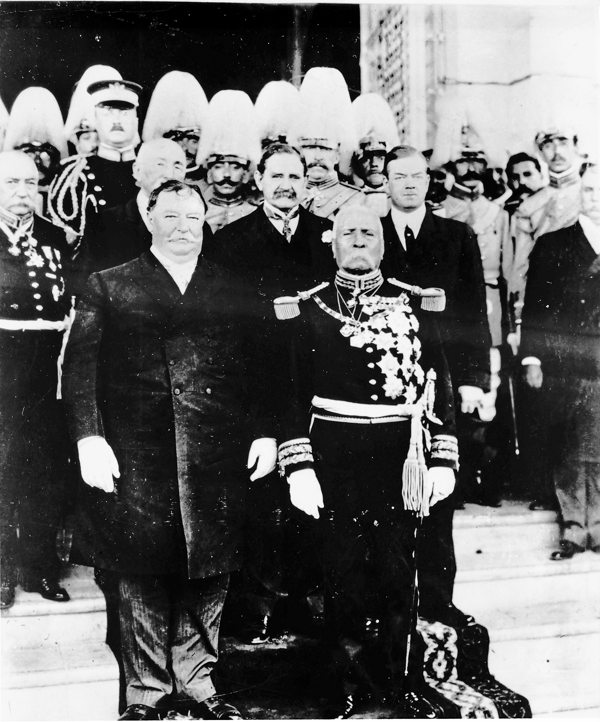 Still image Presidents William Howard Taft and Porfirio Díaz at their historic summit in Ciudad Juárez, Mexico.